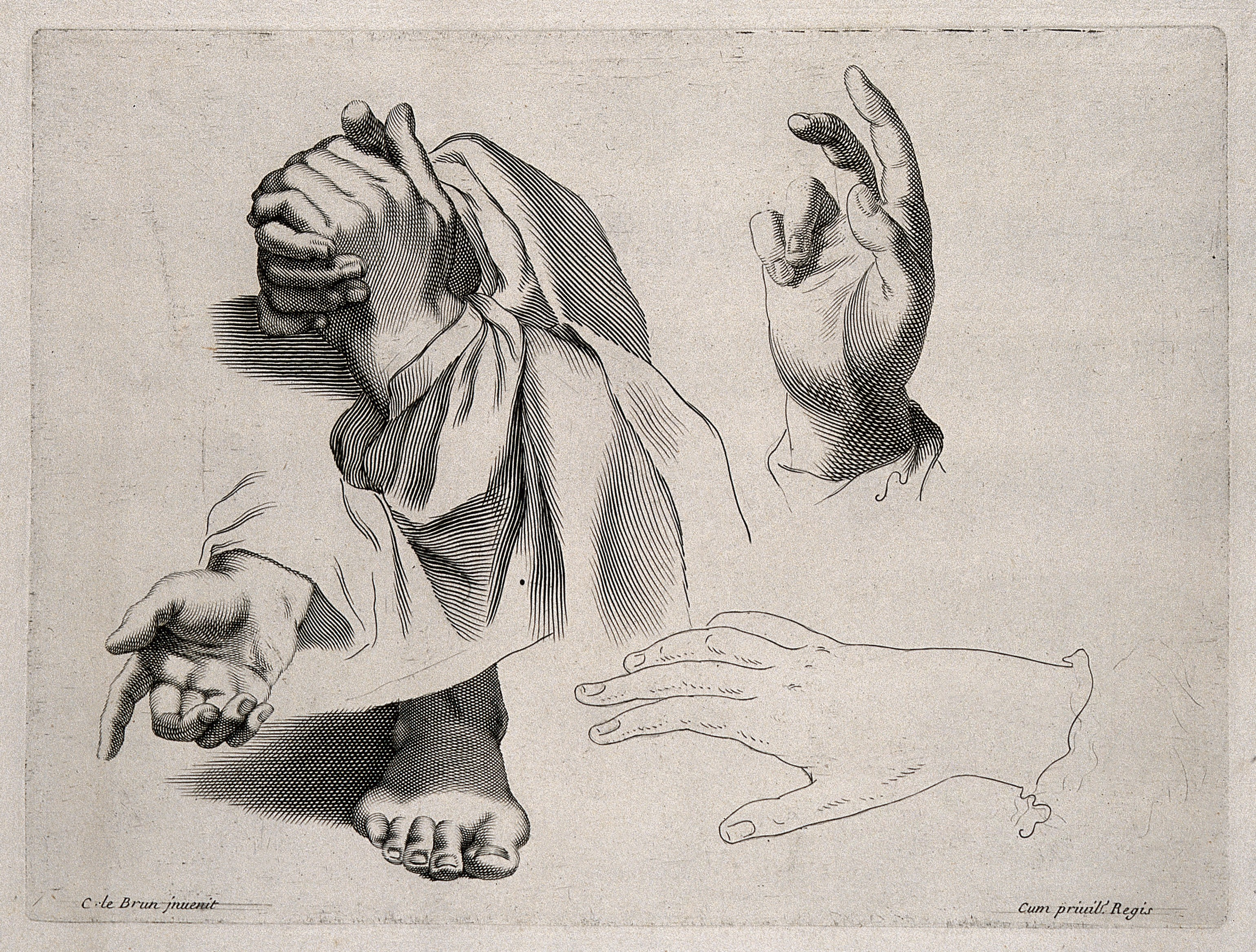 Hands in various gestures, including prayer and benediction. Engraving after C. Le Brun. Iconographic Collections Keywords: Charles Le Brun